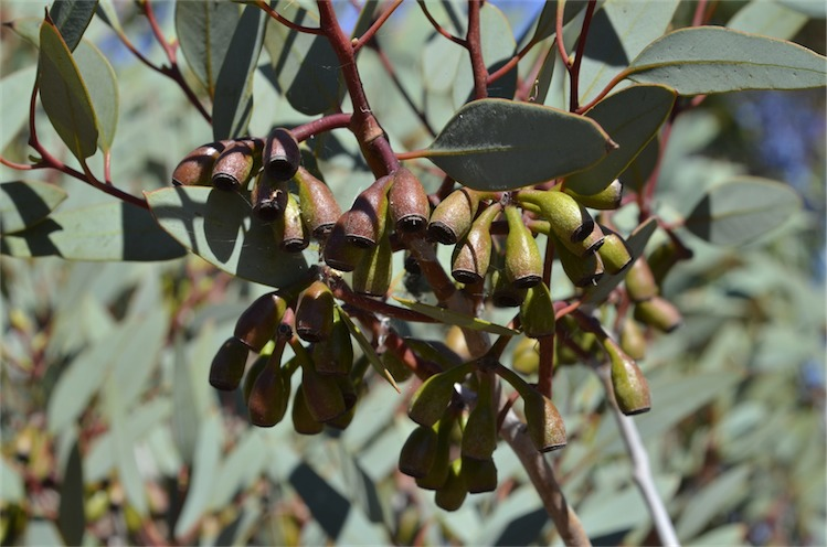 Fruit of Eucalyptus piminiana in the Australian Arid Lands Botanic Gardens, Port Augusta, South Australia